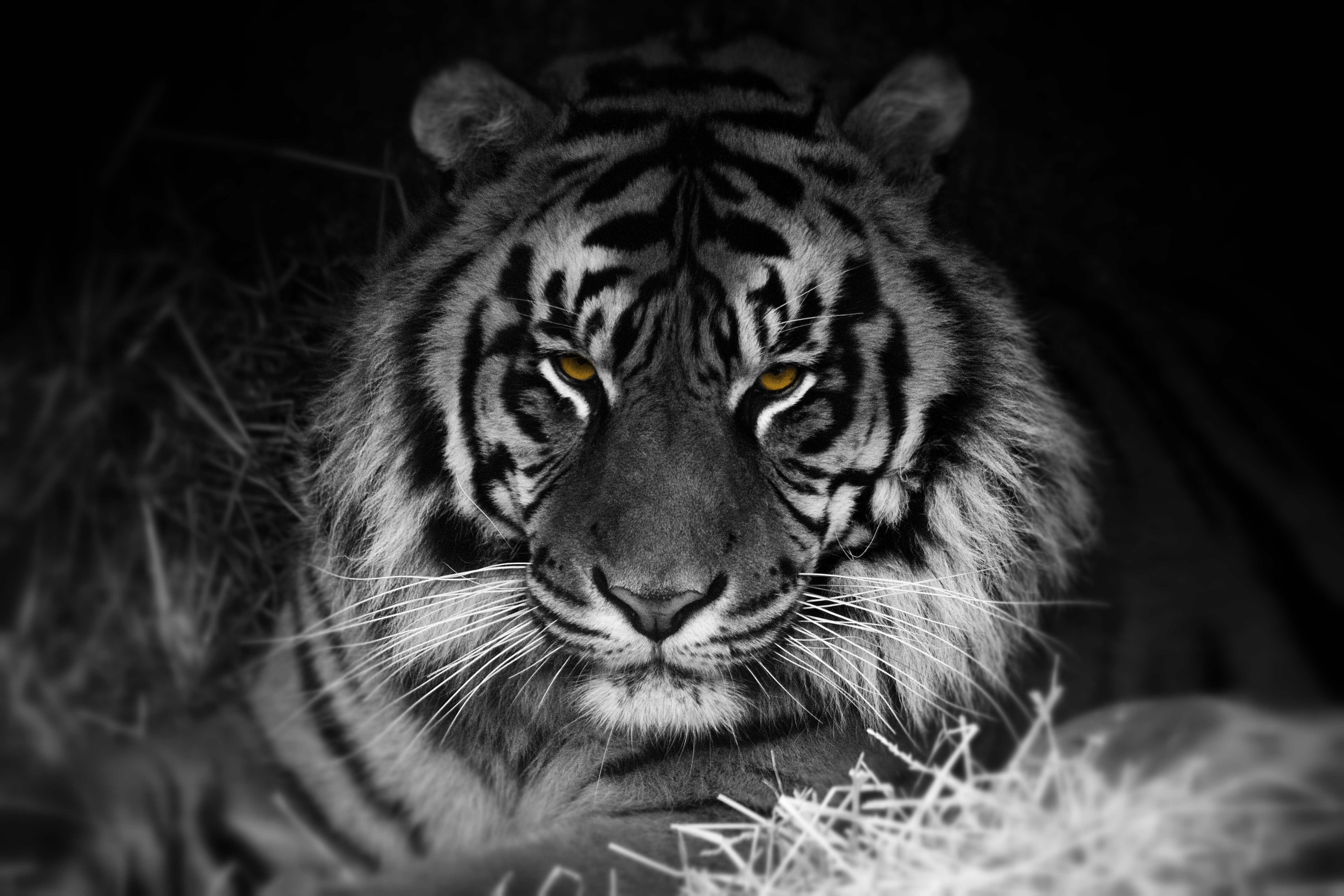 Photo of Tiger was taken with 500 mm lens b/w eyes coloured at processing